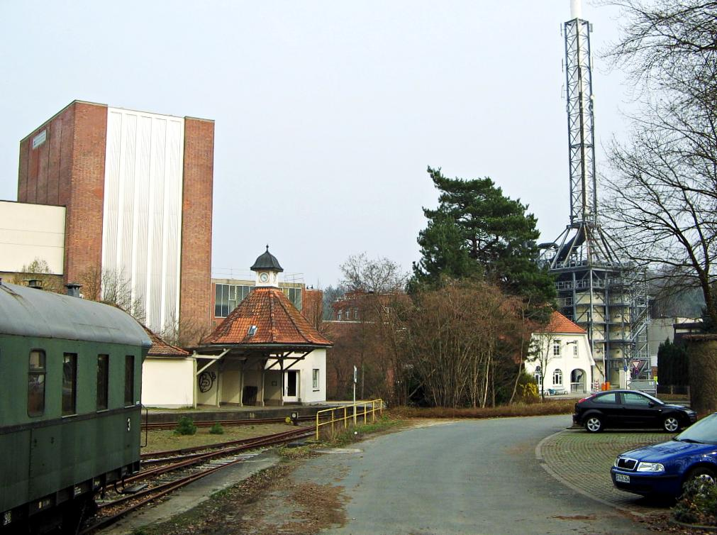 Dow Wolff Cellulosics with ancient railway station in Bomlitz, Lower Saxony